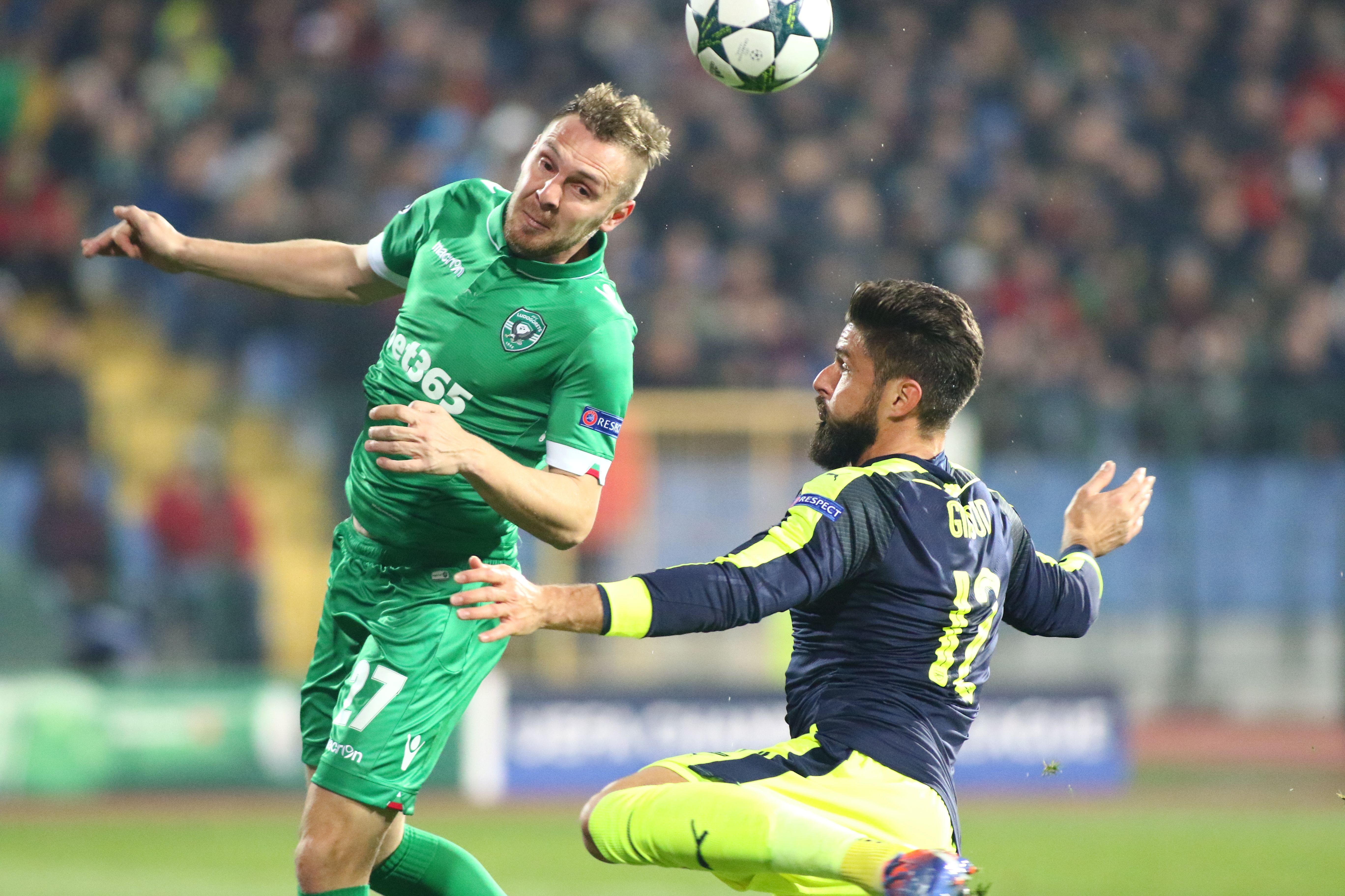 Cosmin Moți (Ludogorets, left) in the air battle against Olivie Giroud (Arsenal), moment of Ludogorets vs Arsenal 2-3, UEFA Champions League, 1 noe 2016